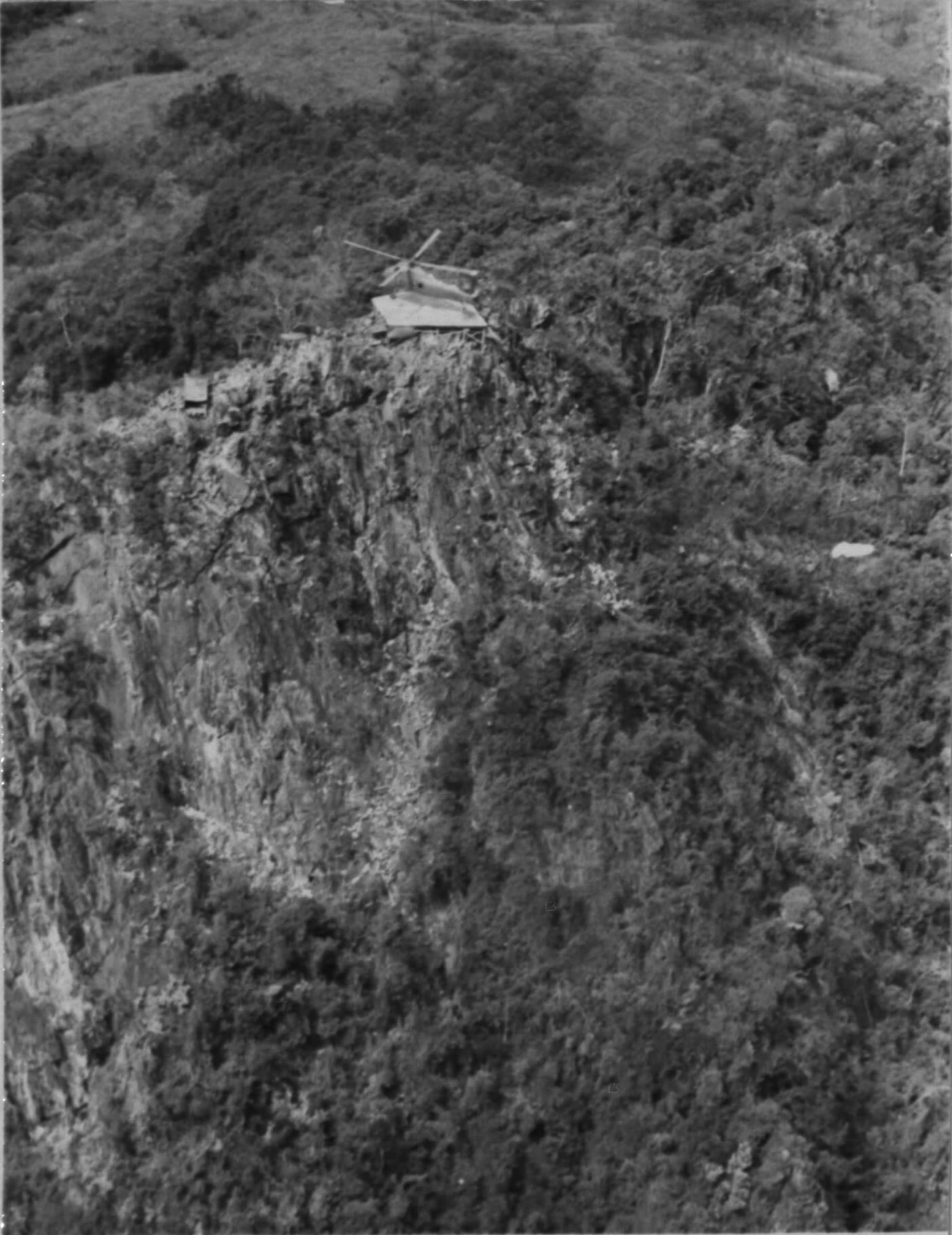 "A UH-34D from Marine Medium Helicopter Squadron 163 (HMM-163) uses a newly constructed helicopter pad on top of the Rockpile to resupply members of the 3d Battalion, 3d Marines. Helicopters previously performed this mission by hovering with one wheel on a tiny wooden ramp."